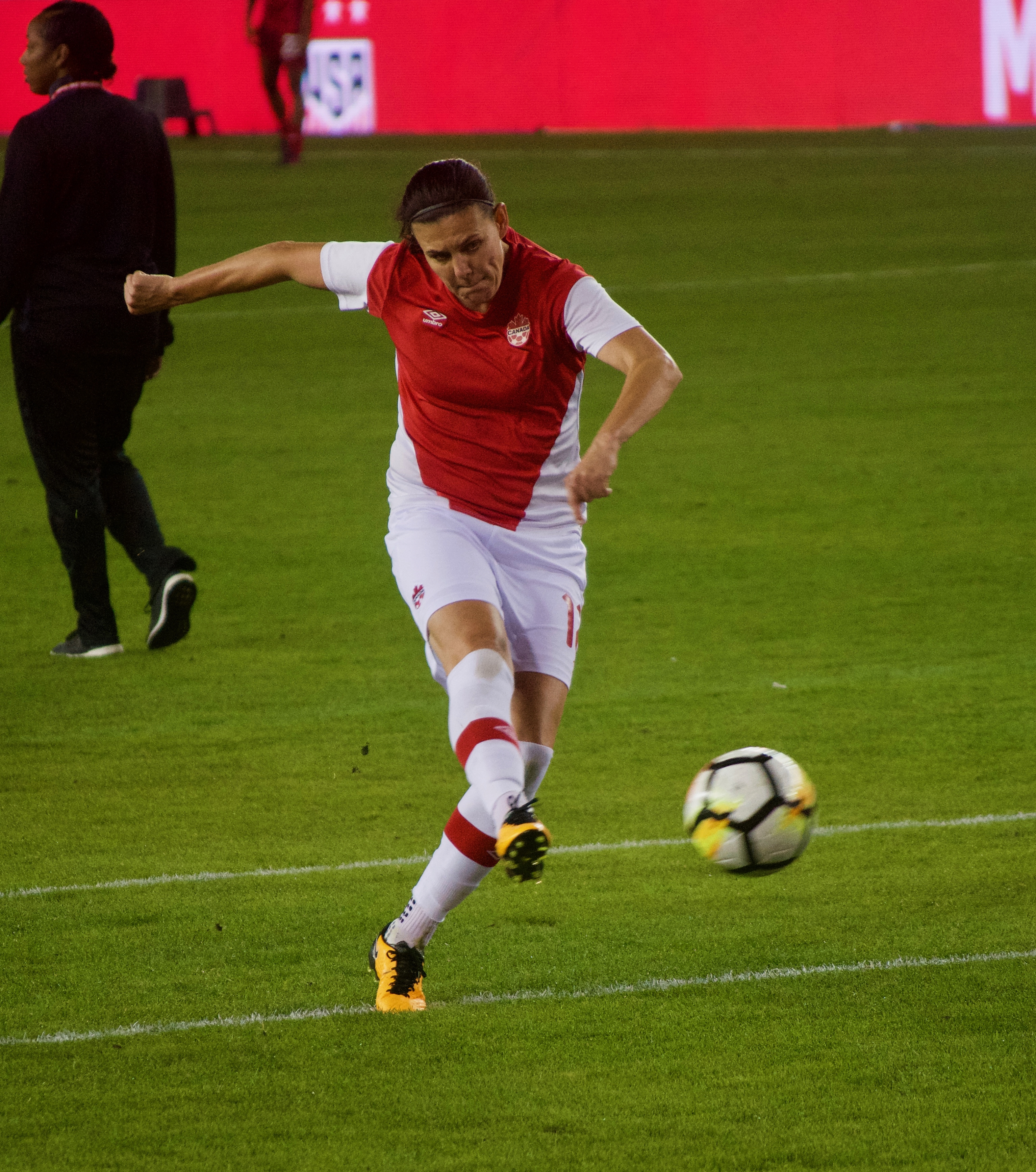 Christine Sinclair warming up before a game at Avaya Stadium, San Jose, California, on 12 Nov 2017.